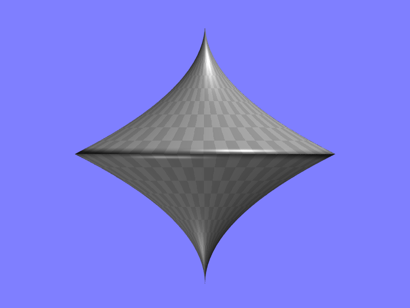 The Toupie surface is described by the parametric equations x = (abs(u)-1)^2 * cos(v) y = u z = (abs(u)-1)^2 * sin(v)